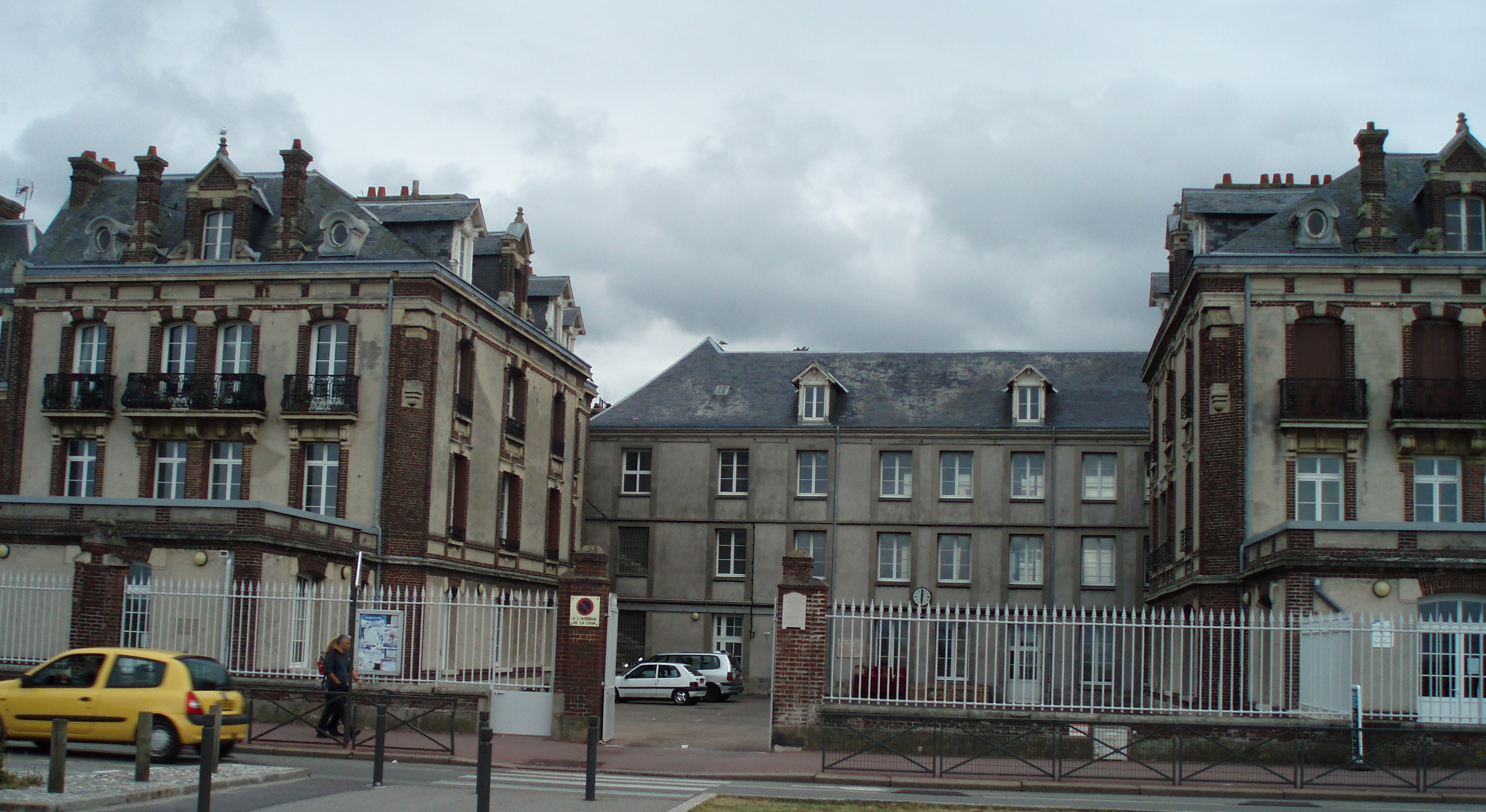 Ecole Descelliers à Dieppe, France